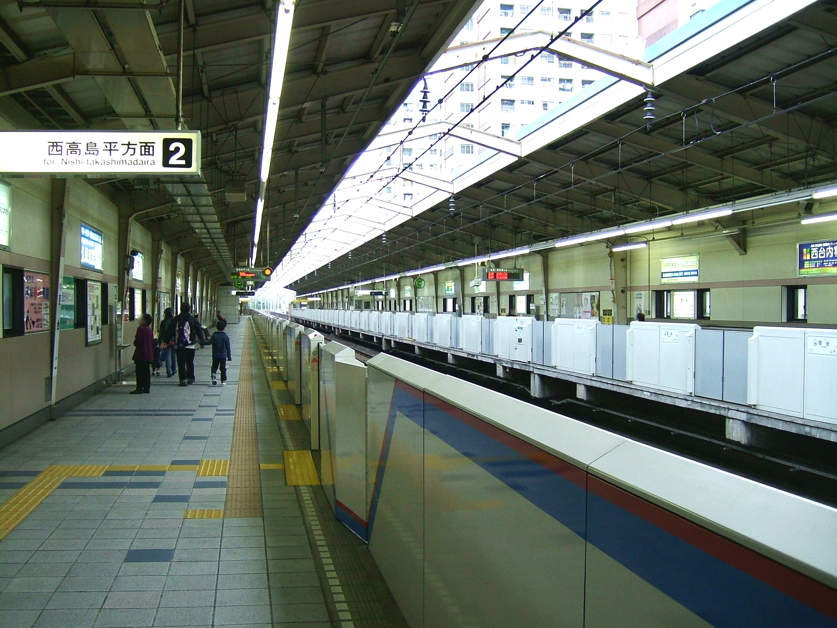 The platforms at Nishidai Station on the Toei Mita Line in Itabashi city, Tokyo, Japan